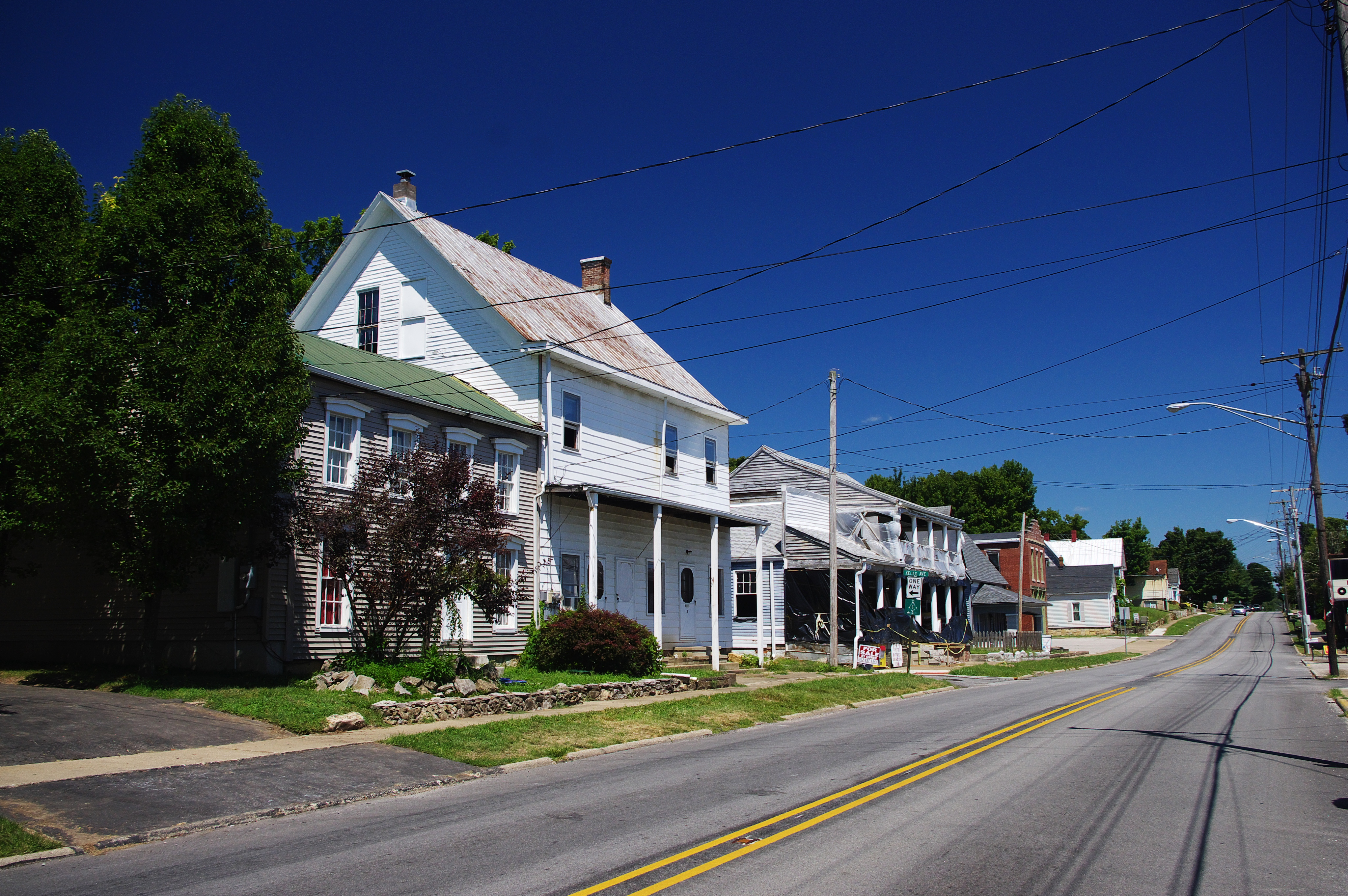 Buildings along Main Street (Indiana State Road 64) in Georgetown, Indiana, United States.